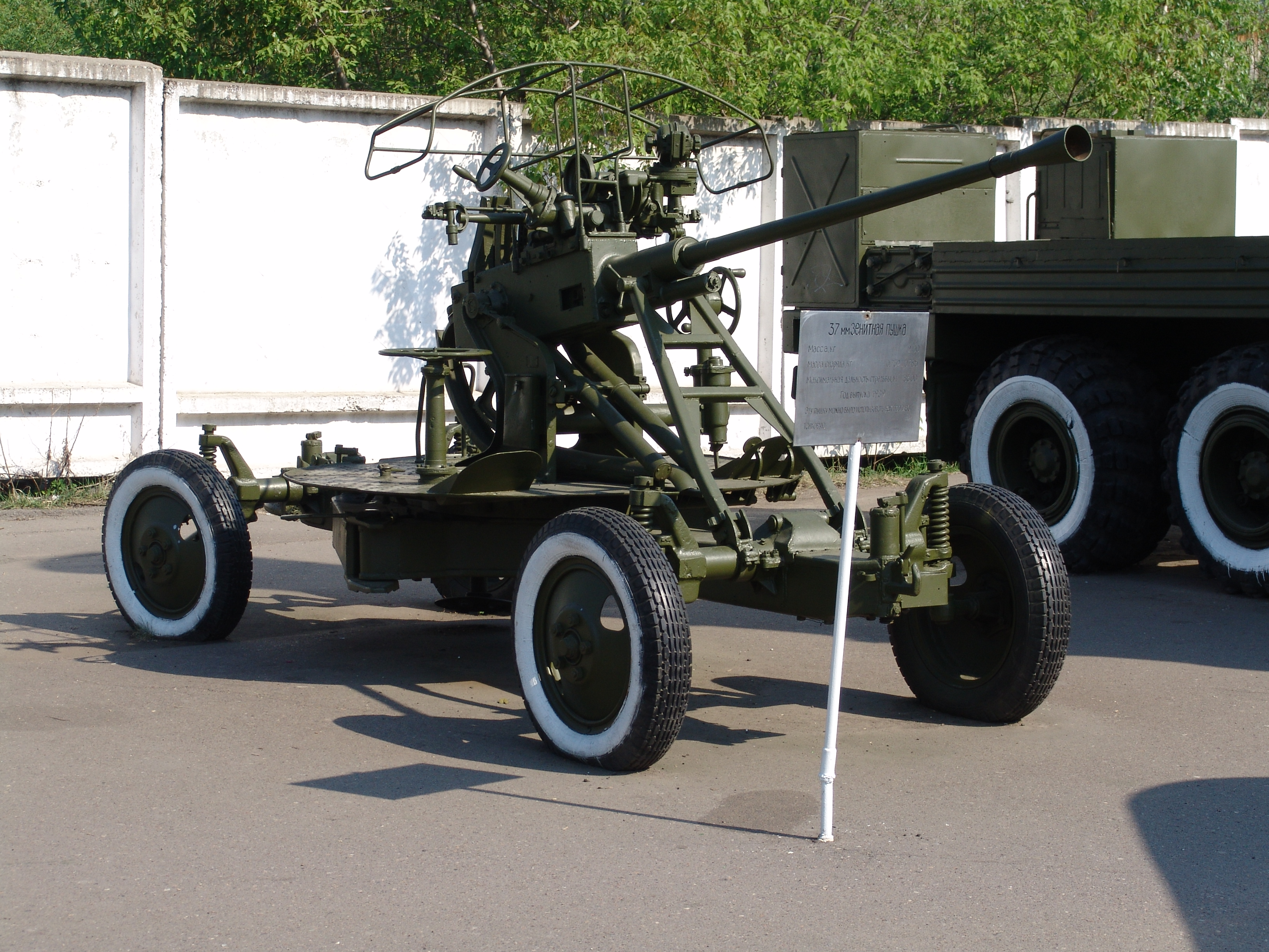 37mm anti-aircraft gun. Motovilikha Plants museum in Perm Russia.